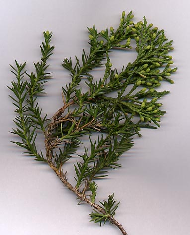 Juniperus chinensis shoot, showing juvenile (needle-like) leaves, adult scale leaves, and immature male cones - photo User:MPF